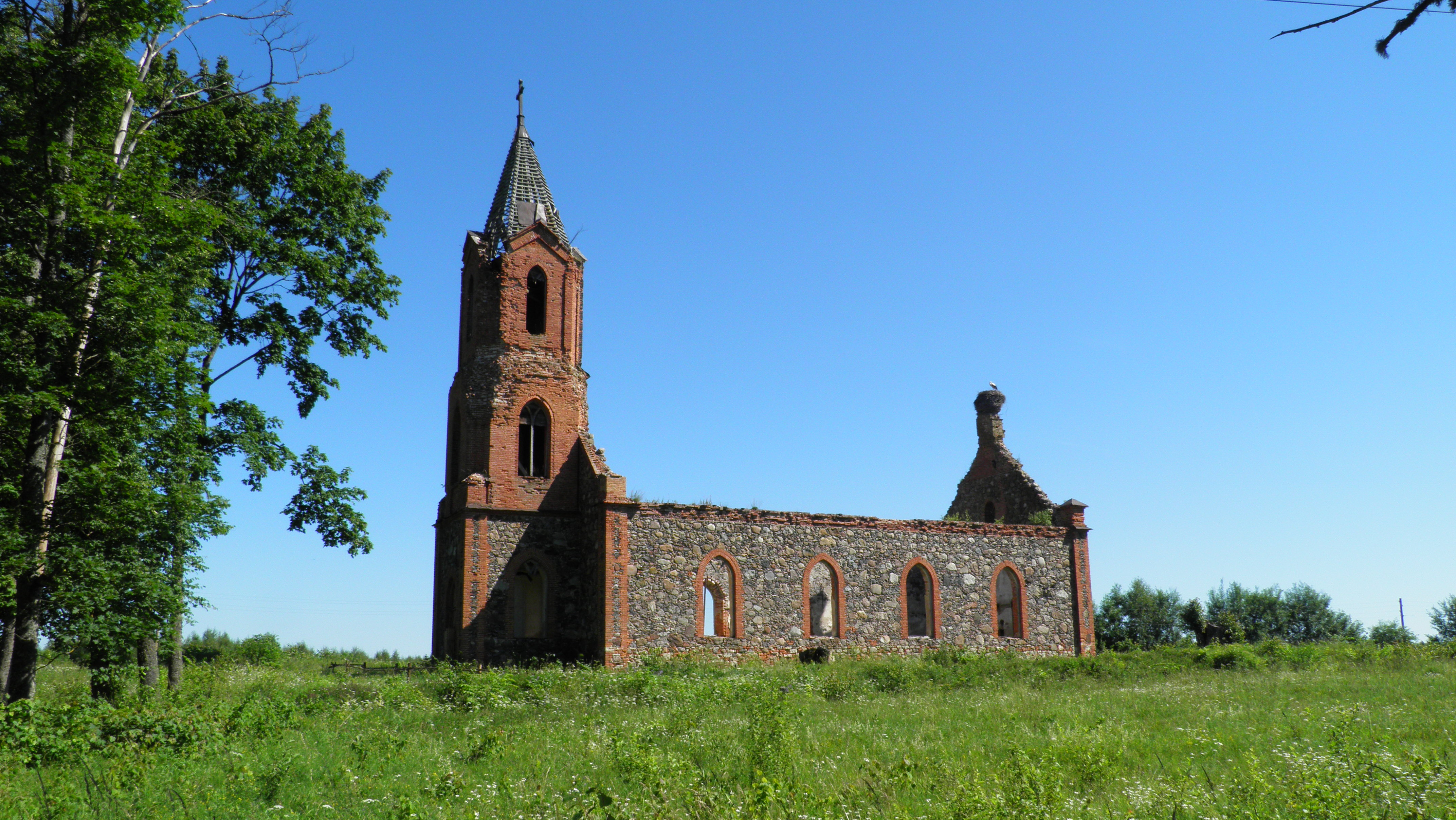 zalves church